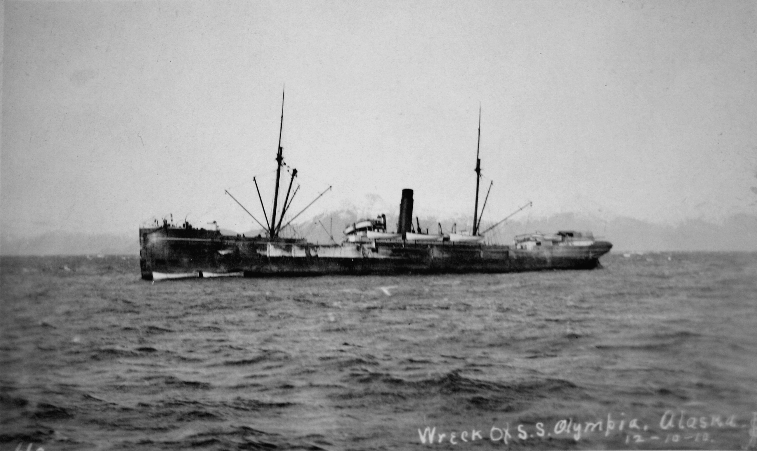 The steamship SS Olympia, seen aground on Bligh Reef in Prince William Sound, Alaska, on December 10, 1910. Postcard image was scanned by NOAA archival photographer Stefan Claesson.